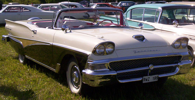 Ford Fairlane Convertible 1958